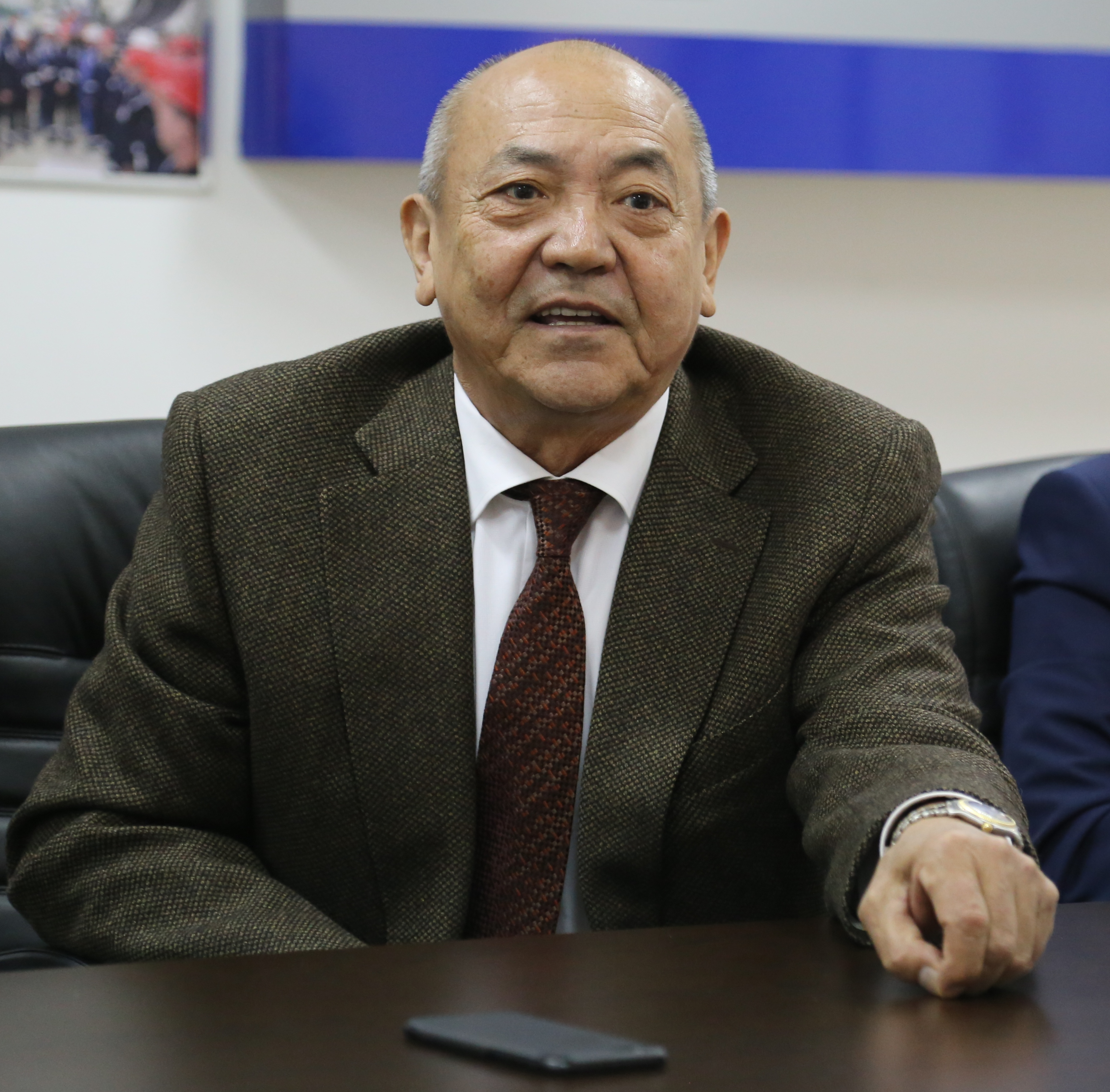 Sagat Tugelbayev